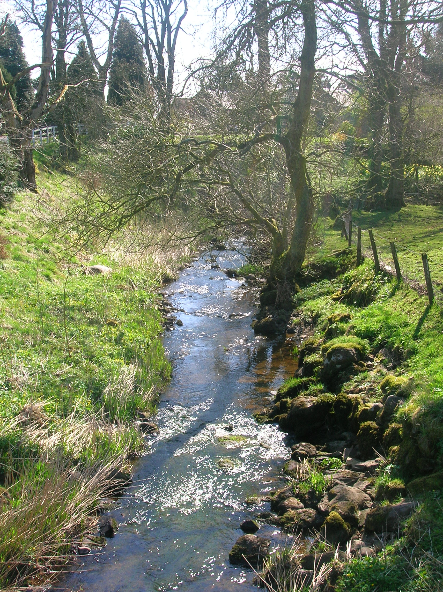 The Clerkland Burn looking south at Clerkland House towards Stewarton, East Ayrshire. 2007.